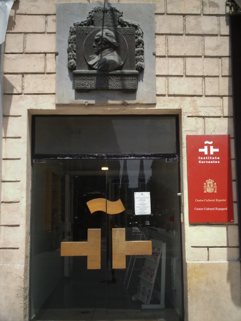 Instituto Cervantes at Bordeaux (France)